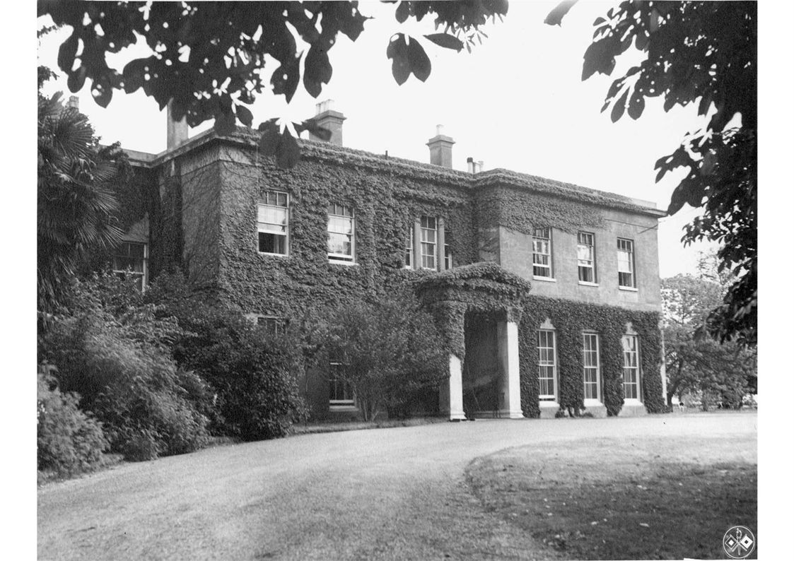 The front of Stanwell Place, Stanwell, Middlesex, England